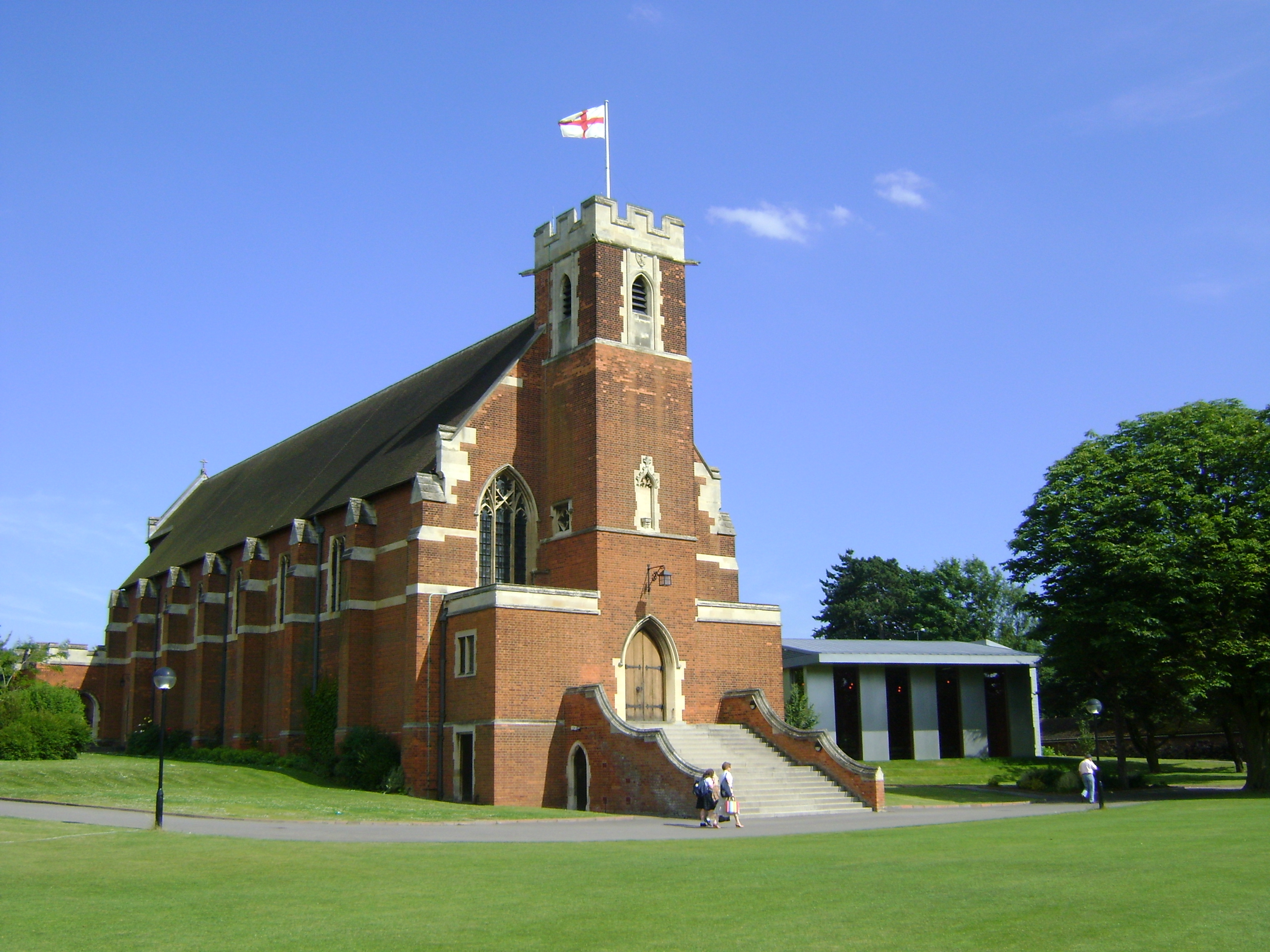 (Digital photograph of Bedford School chapel taken in person by Nauplionus on 01/07/2008 )